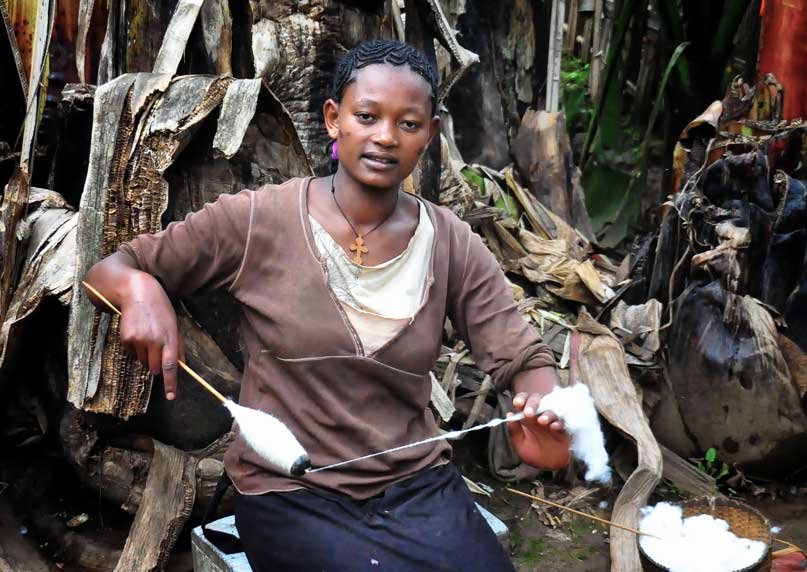 Spinning, Dorse Tribe, Ethiopia